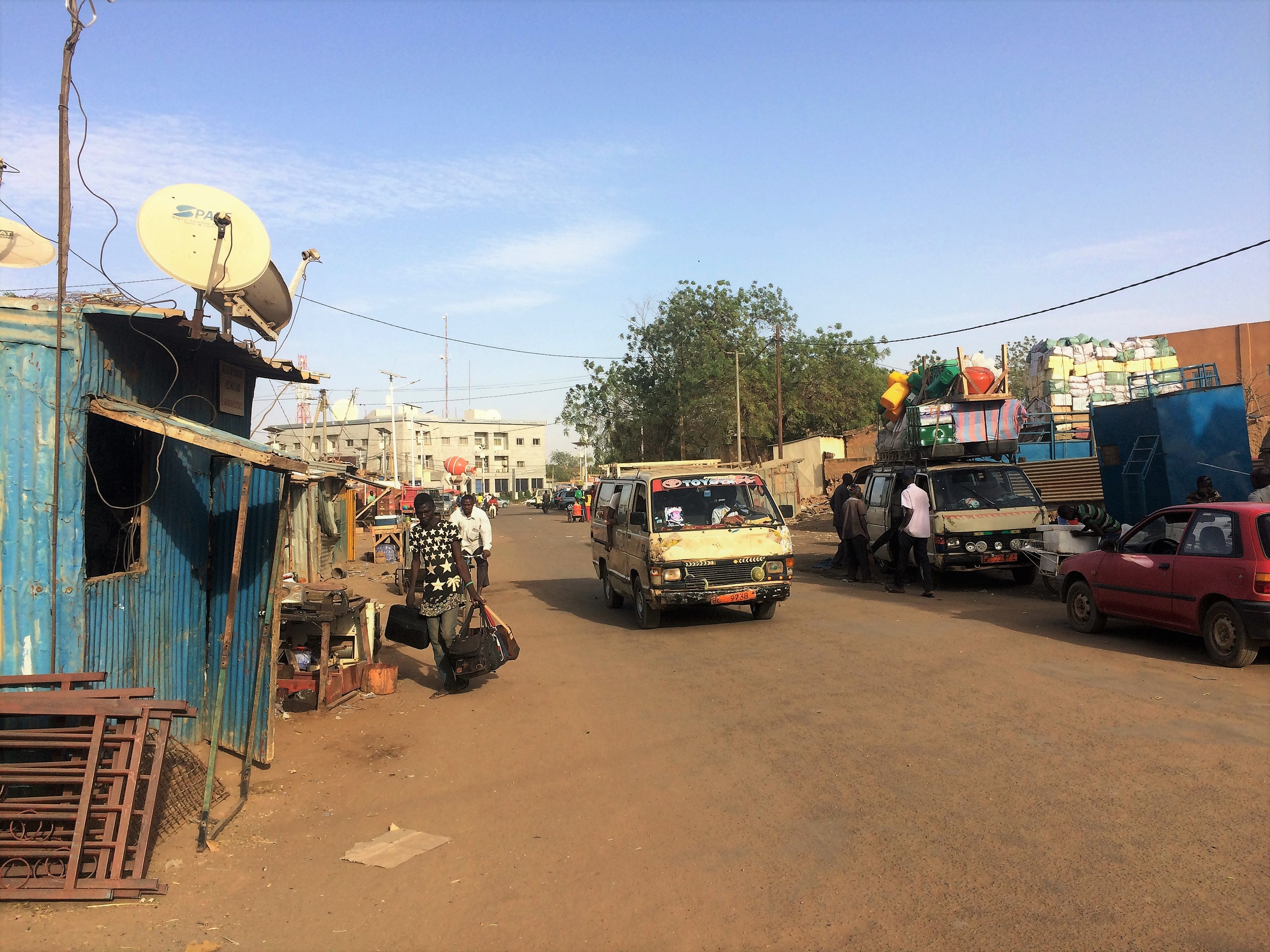 Avenue de la Cathédrale (Rue LI-23) in the Liberté neighborhood in Niamey, Niger.